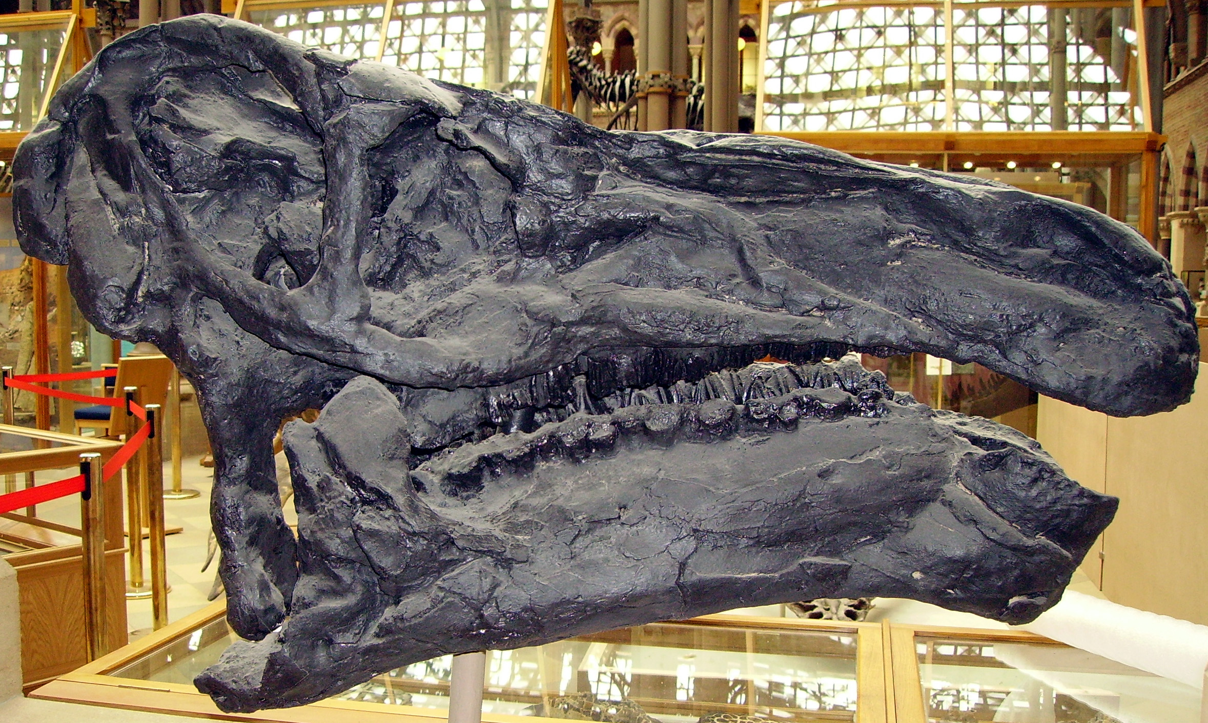 Iguanodon skull from Oxford University Museum of Natural History.